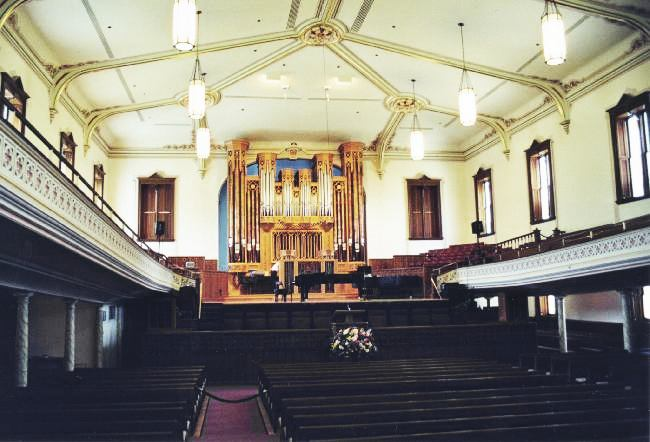 Insides Assembly Hall in Salt Lake City, Utah.